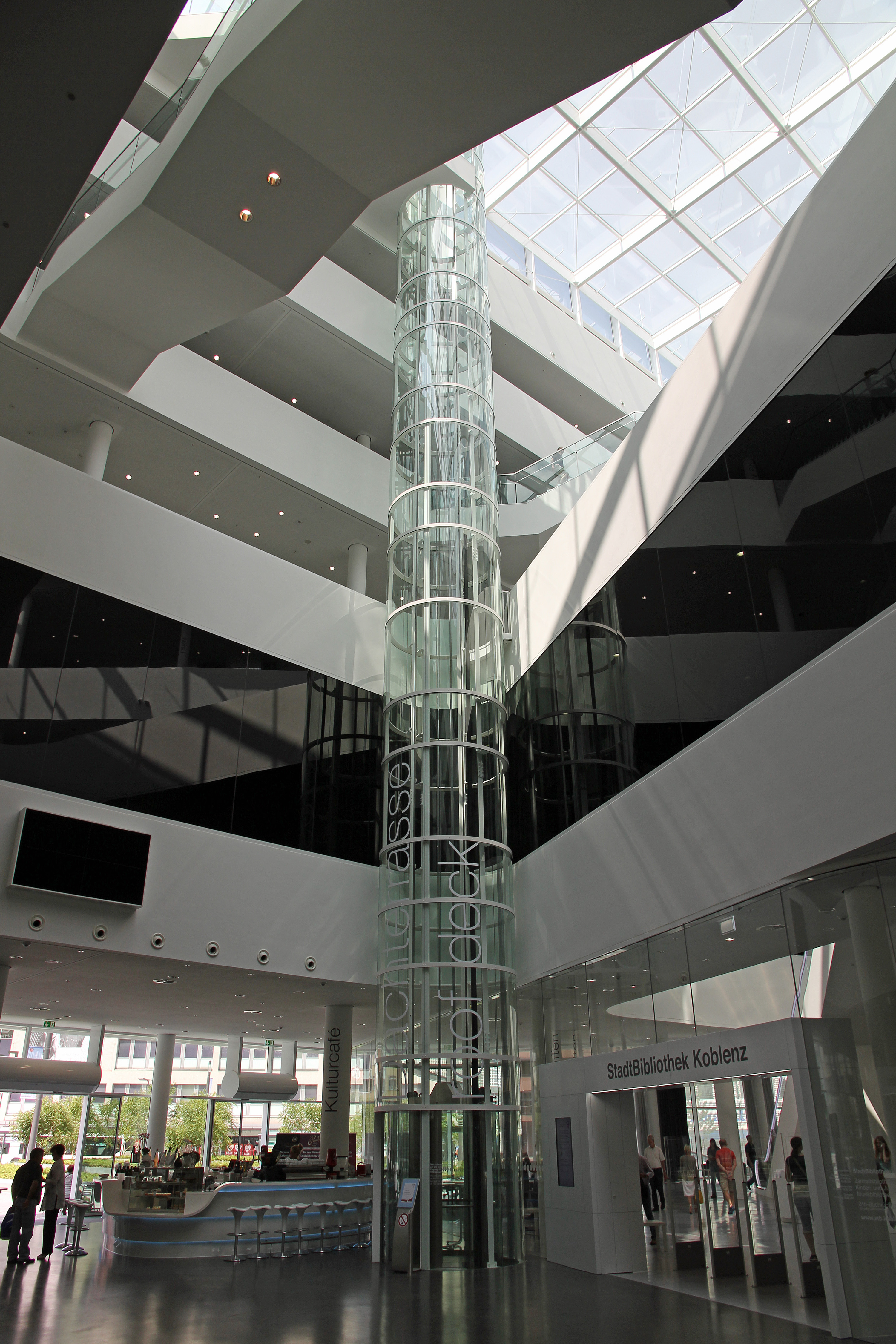 Forum Confluentes in Koblenz